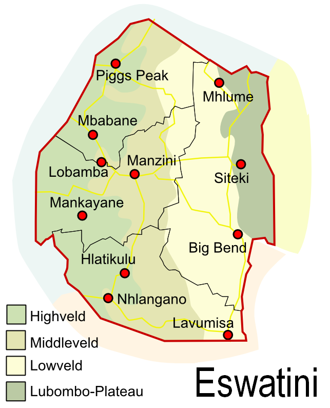 Map of the 4 topographic zones in Eswatini